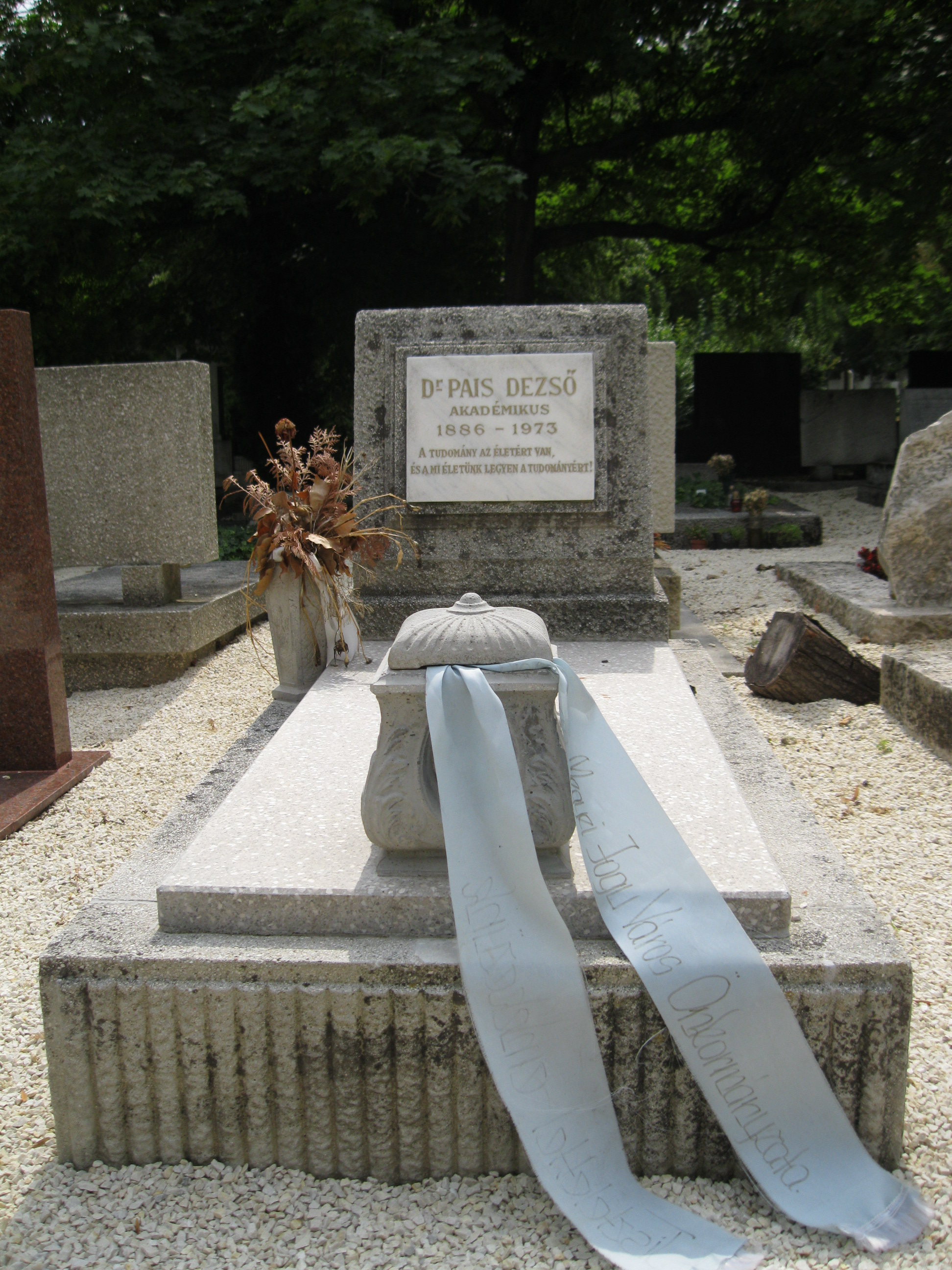 Tomb of Dezső Pais in Farkasréti Cemetery [6/1-1-52]